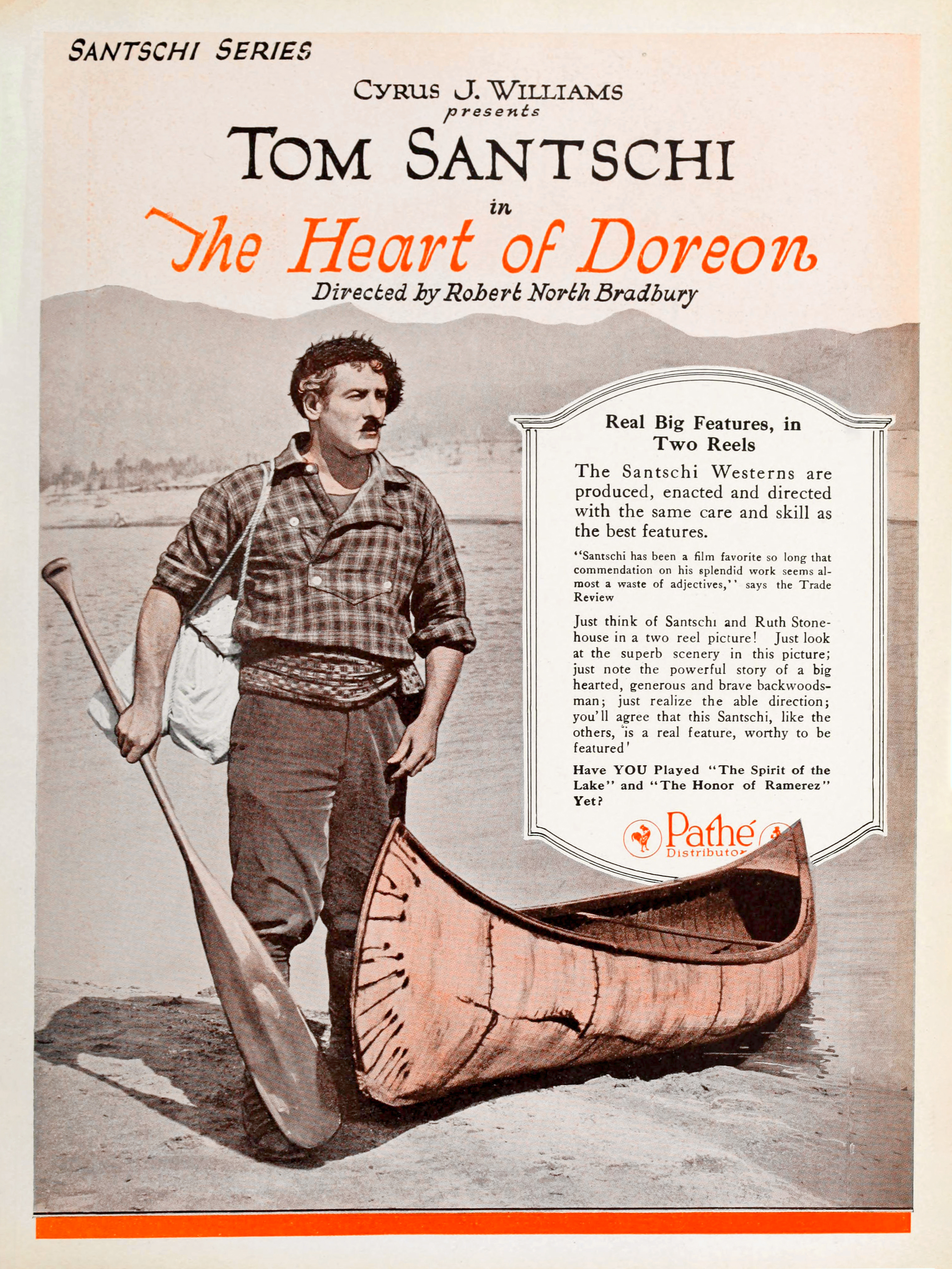 actor Tom Santschi in an advertisement for 1921 silent film The Heart of Doreon